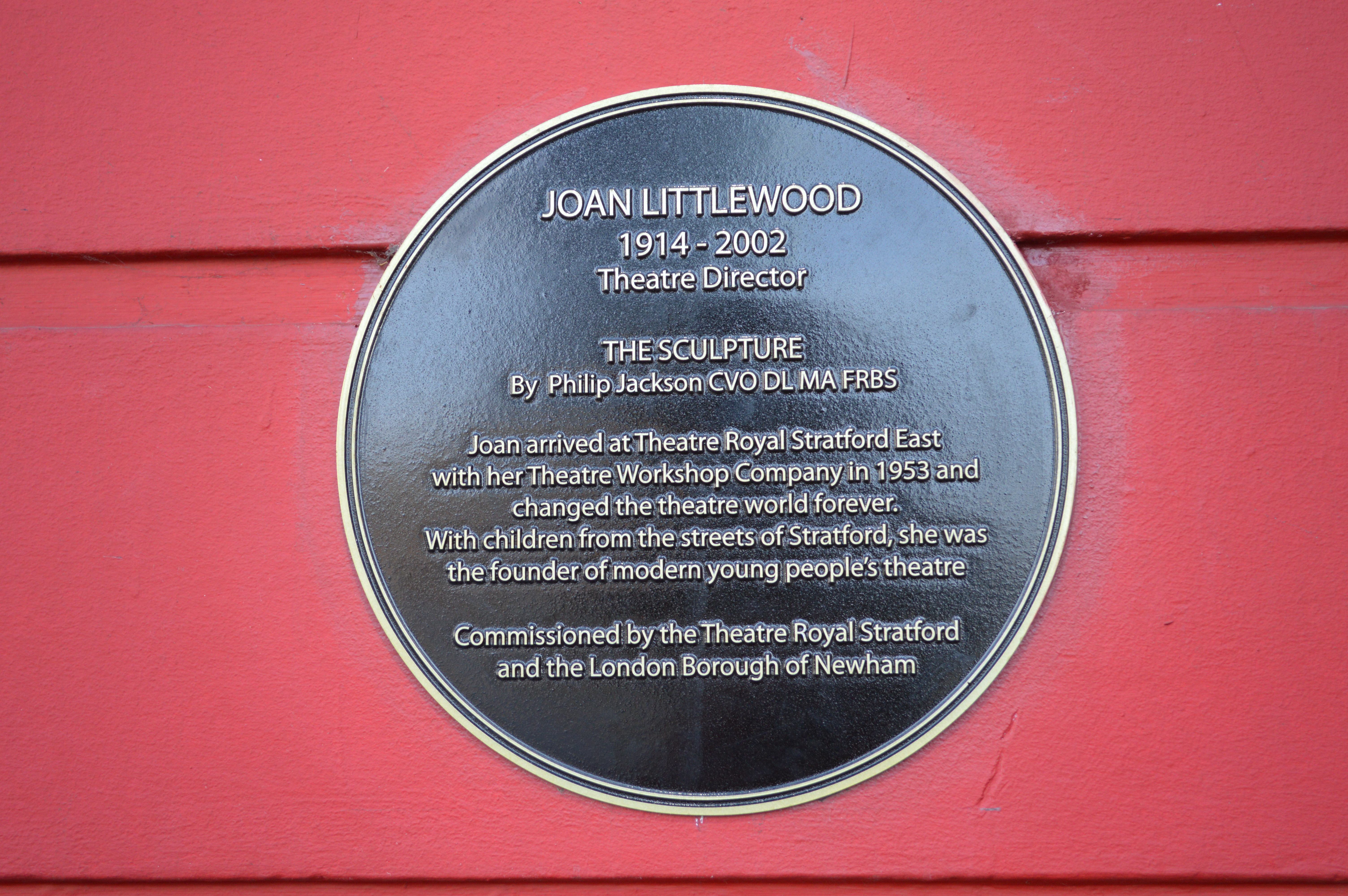 Plaque commemorating Joan Littlewood (1914-2002), theatre director, and the erection of a sculpture of her on 4 October 2015. Joan arrived at Theatre Royal Stratford East with her Theatre Workshop Company in 1953 and ran it with her partner Gerry Raffles until 1974. The sculpture and plaque were by commissioned by the Theatre Royal Stratford and the London Borough of Newham.